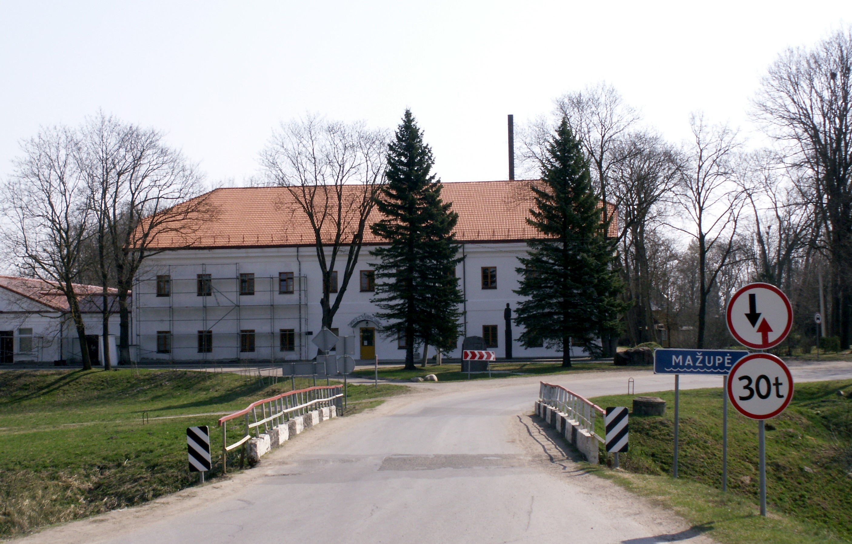 Joniškėlis, Lithuania